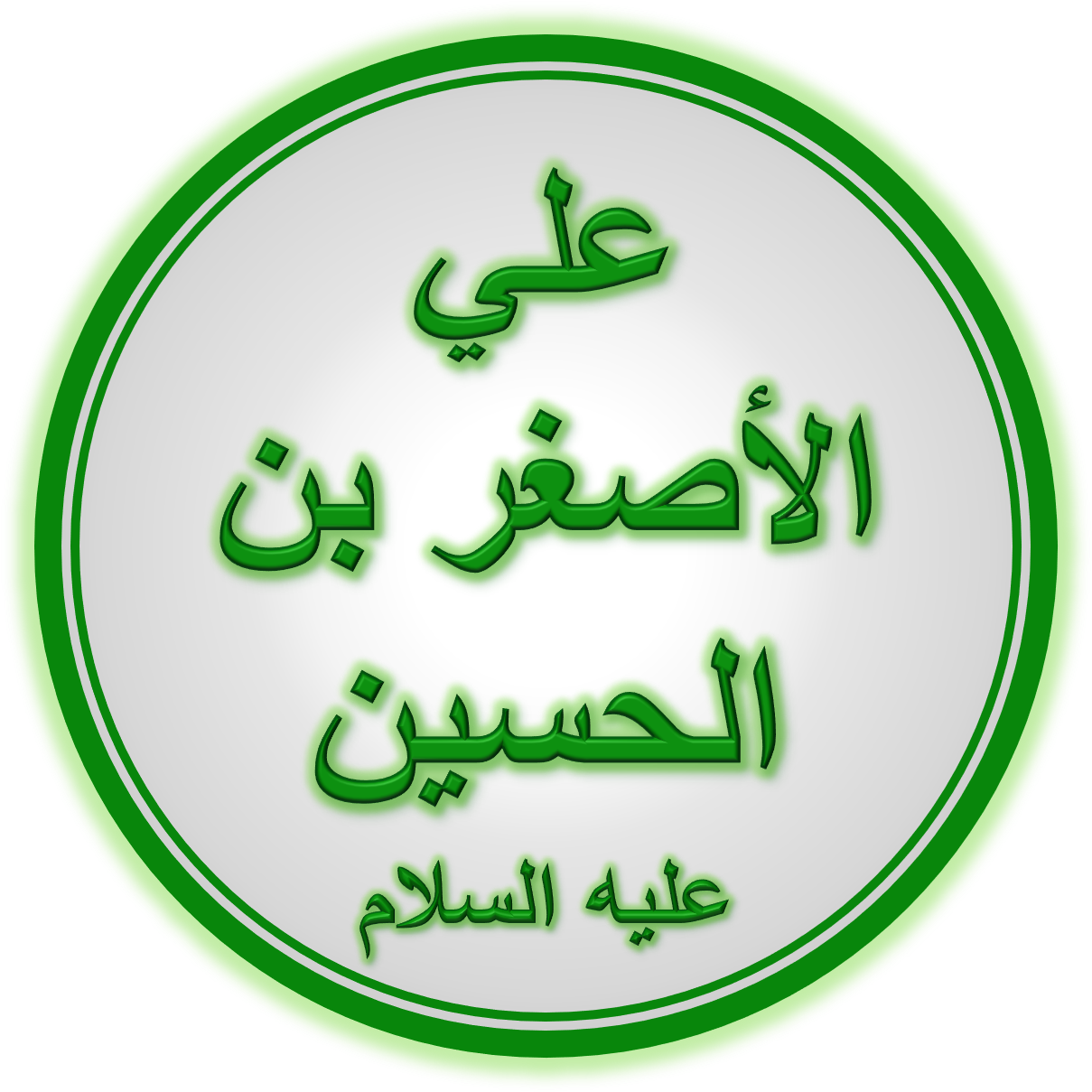 Arabic text with the name of Ali al-Asghar ibn Husayn